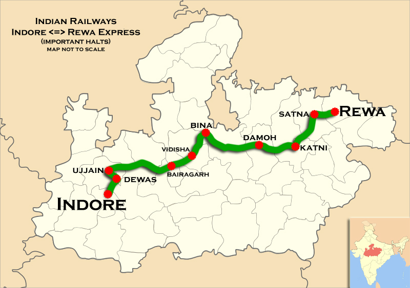 (Indore - Rewa) Express Route map